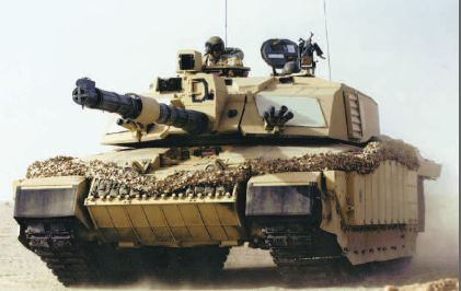 Challenger tank of The Queen's Royal Lancers as represented in The Queen's Royal Lancers and Nottinghamshire Yeomanry Museum